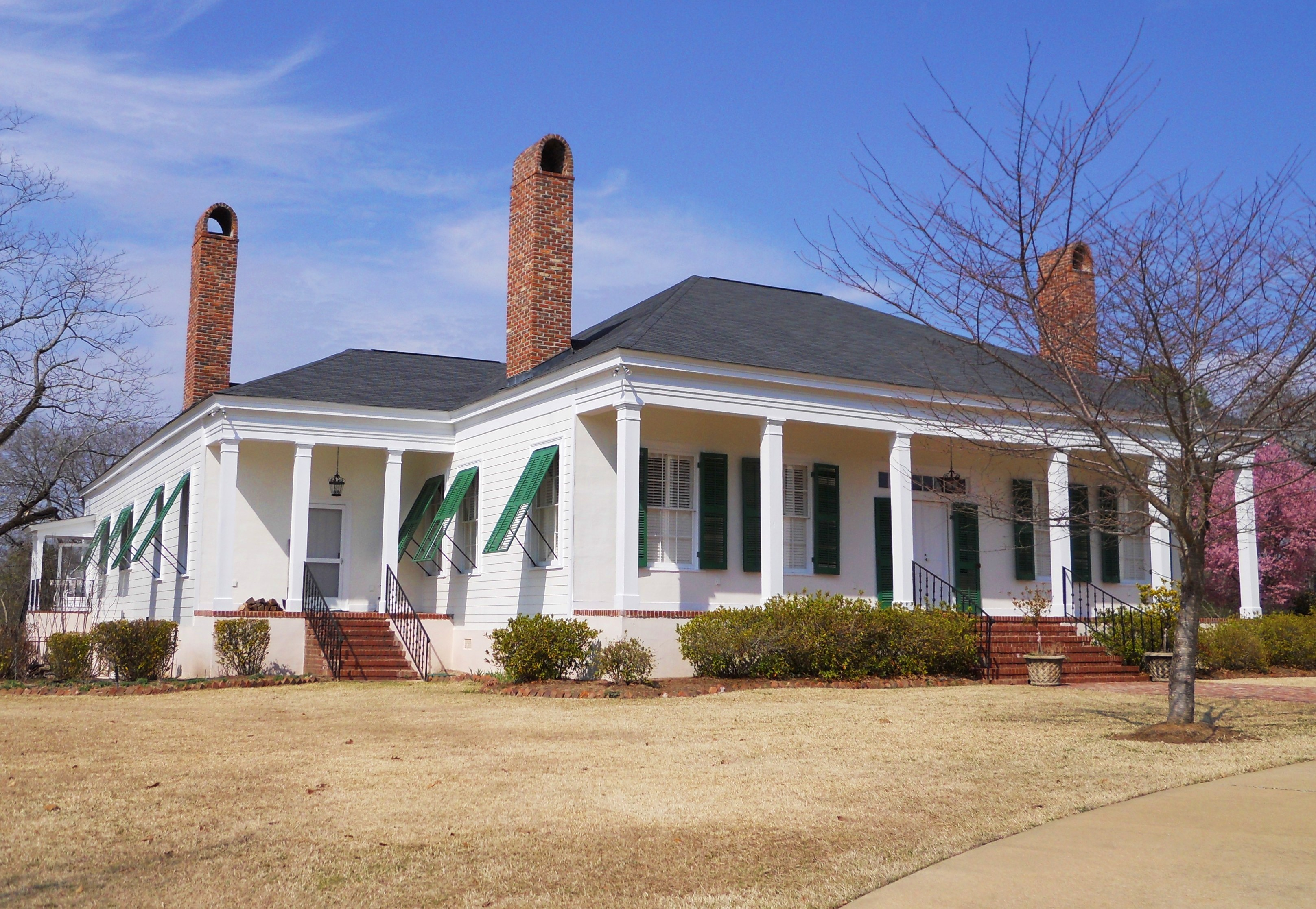 This is a photograph of the Lowther House Complex located in Smiths Station, Alabama. It was added to the National Register of Historic Places on September 16, 1993.